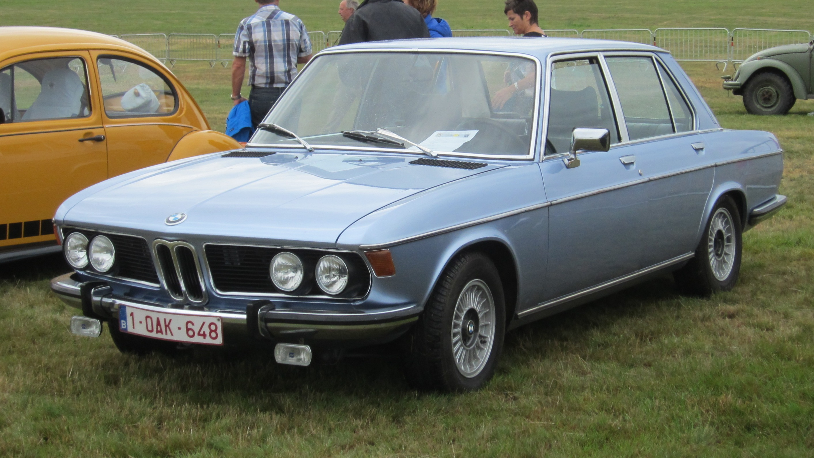 BMW 2800